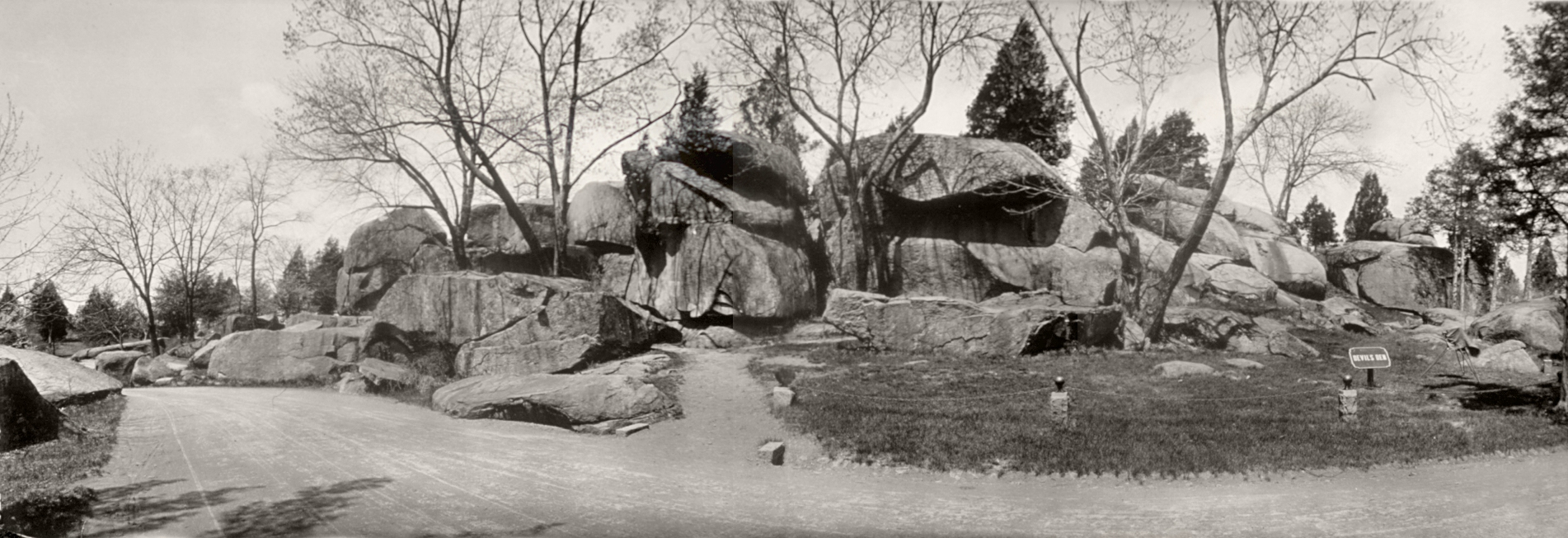 Devil's Den — Gettysburg National Military Park, Gettysburg, Pennsylvania.